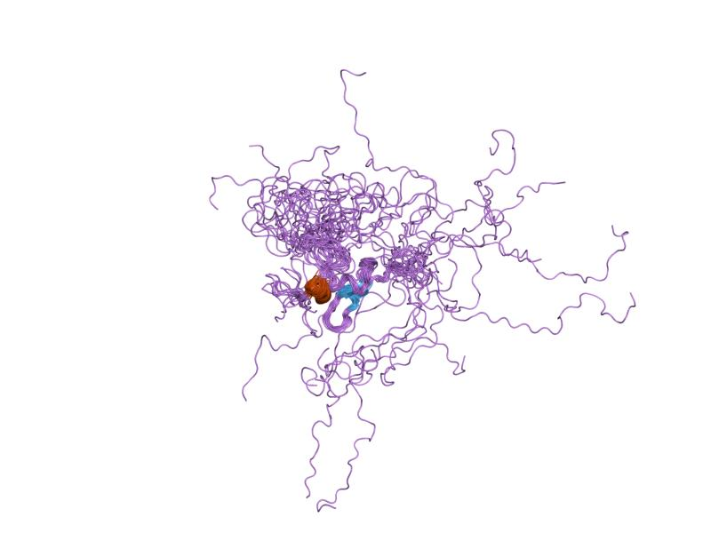 Cartoon representation of the molecular structure of protein registered with 1hn6 code.